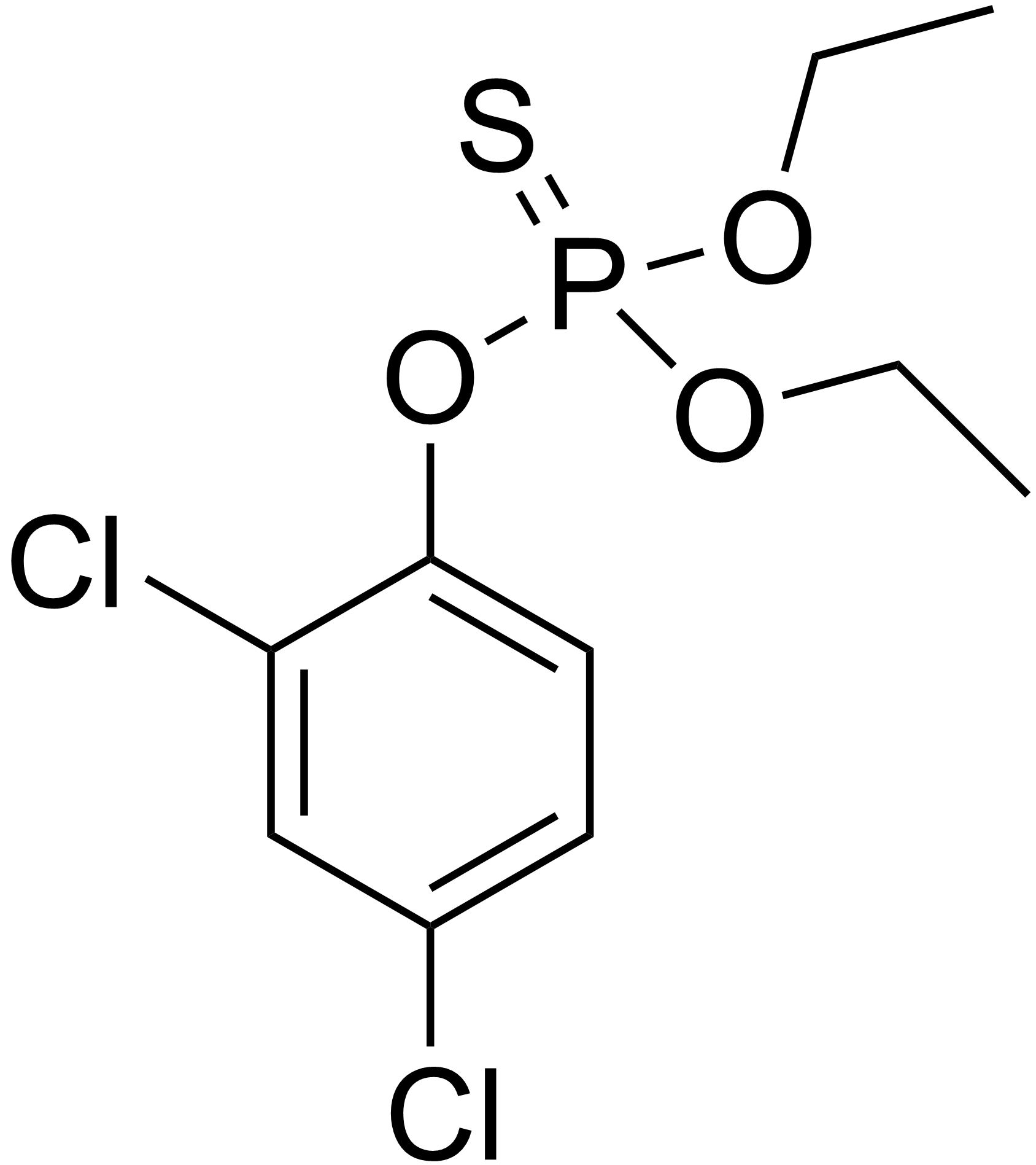 chemical structure of Dichlofenthion